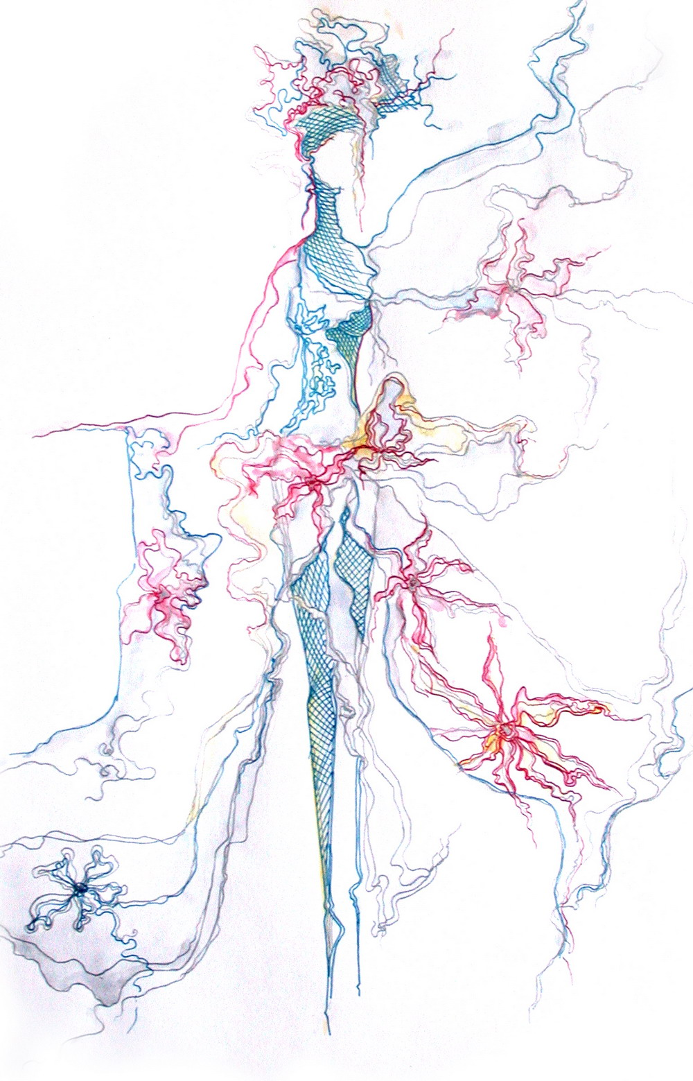 Sketch of a project Wild hunting. 2006 AD